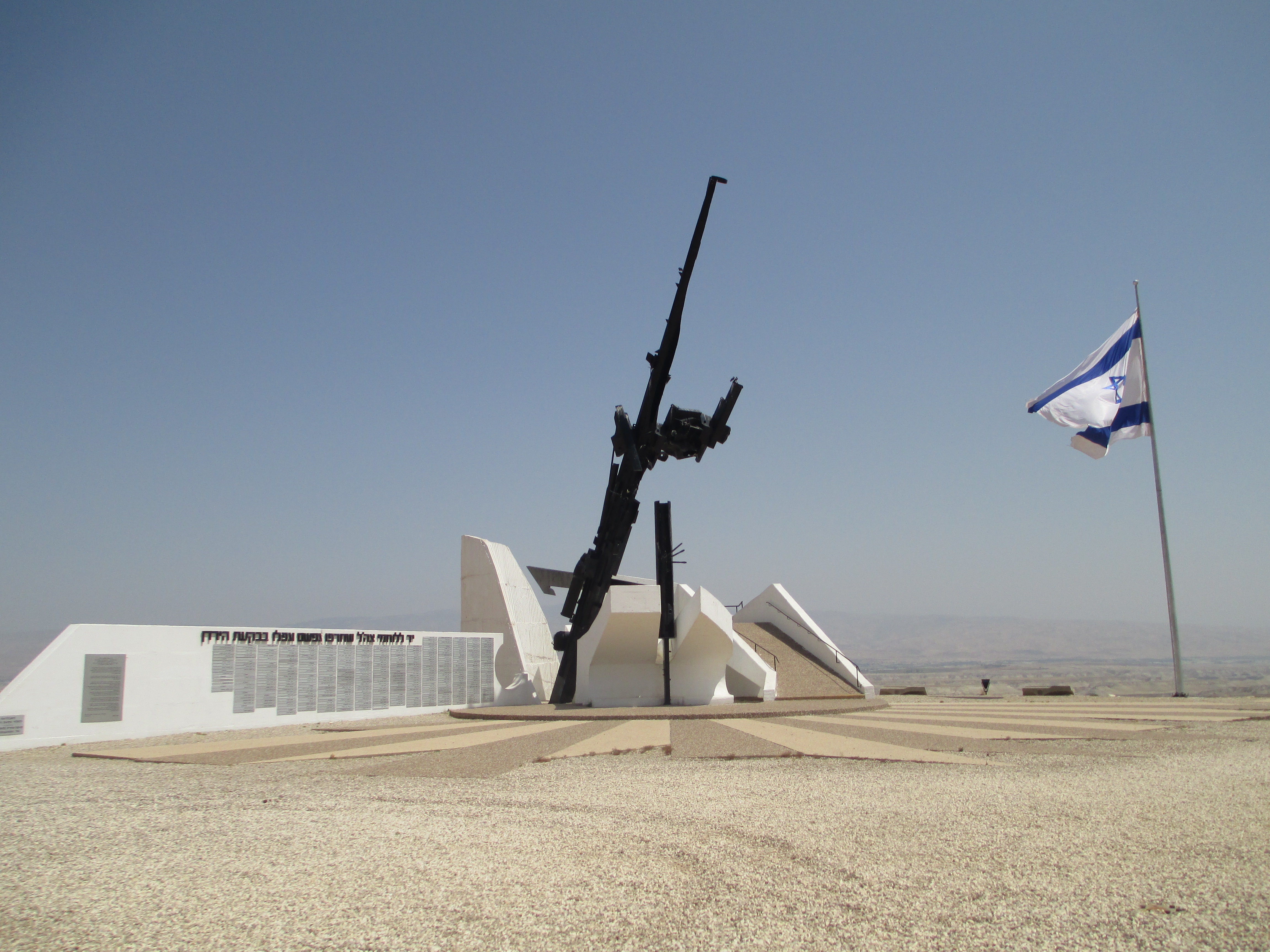 Habik'a (Jordan Valley) war memorial